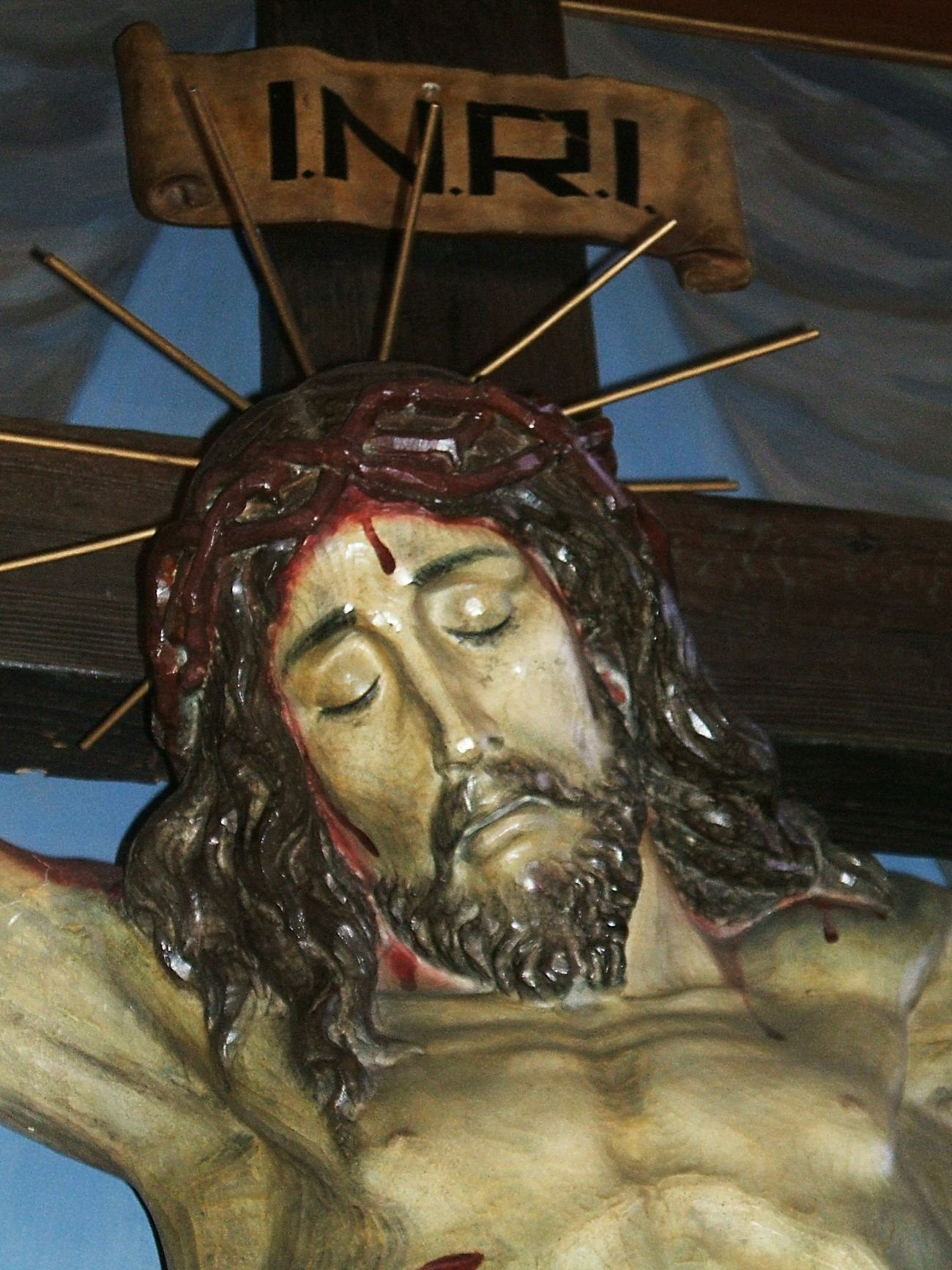 Crucificado en la Iglesia Parroquial de Nuestra Señora de los Desamparados, Vitoria-Gasteiz, País Vasco, Vitoria